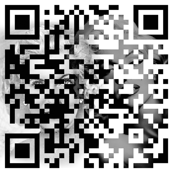 CrossWorlds series